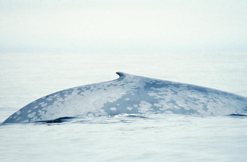 The dorsal fin of the Blue Whale